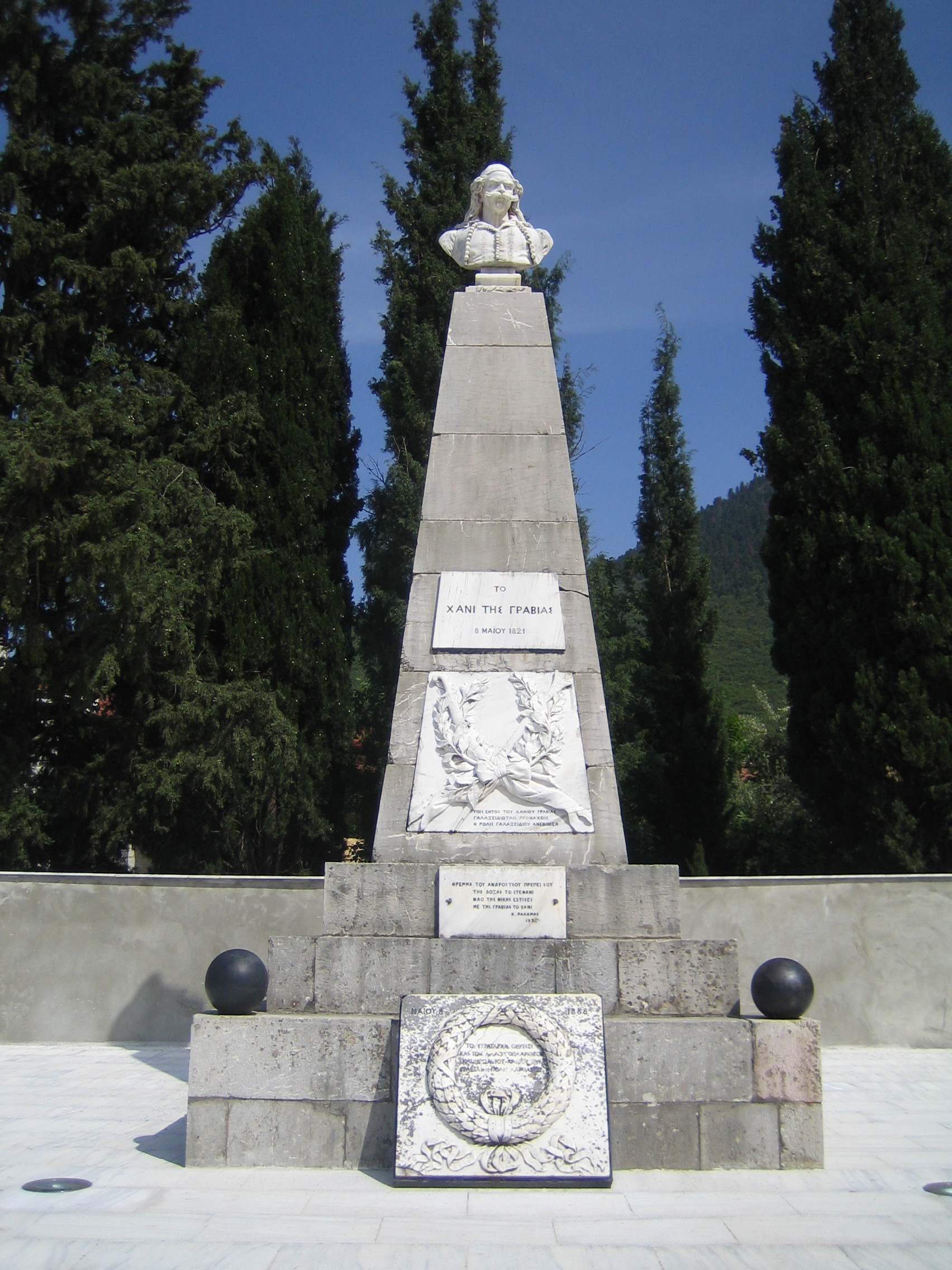 Monument of Odysseas Androutsos and the Battle of Gravia Inn. Gravia, Greece.